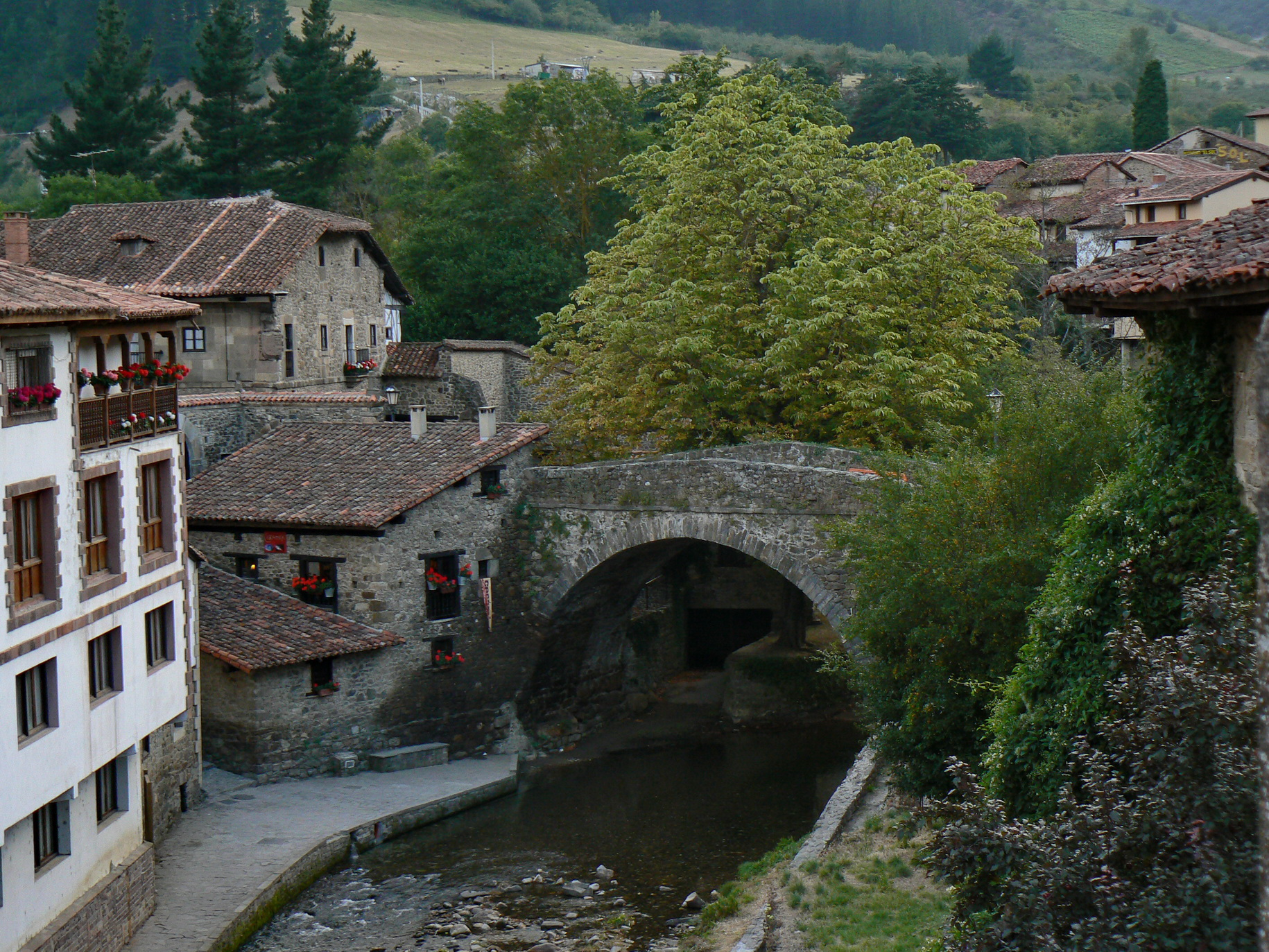 Potes, Cantabria, Spain. Bridge on the Rio Quiviesa.